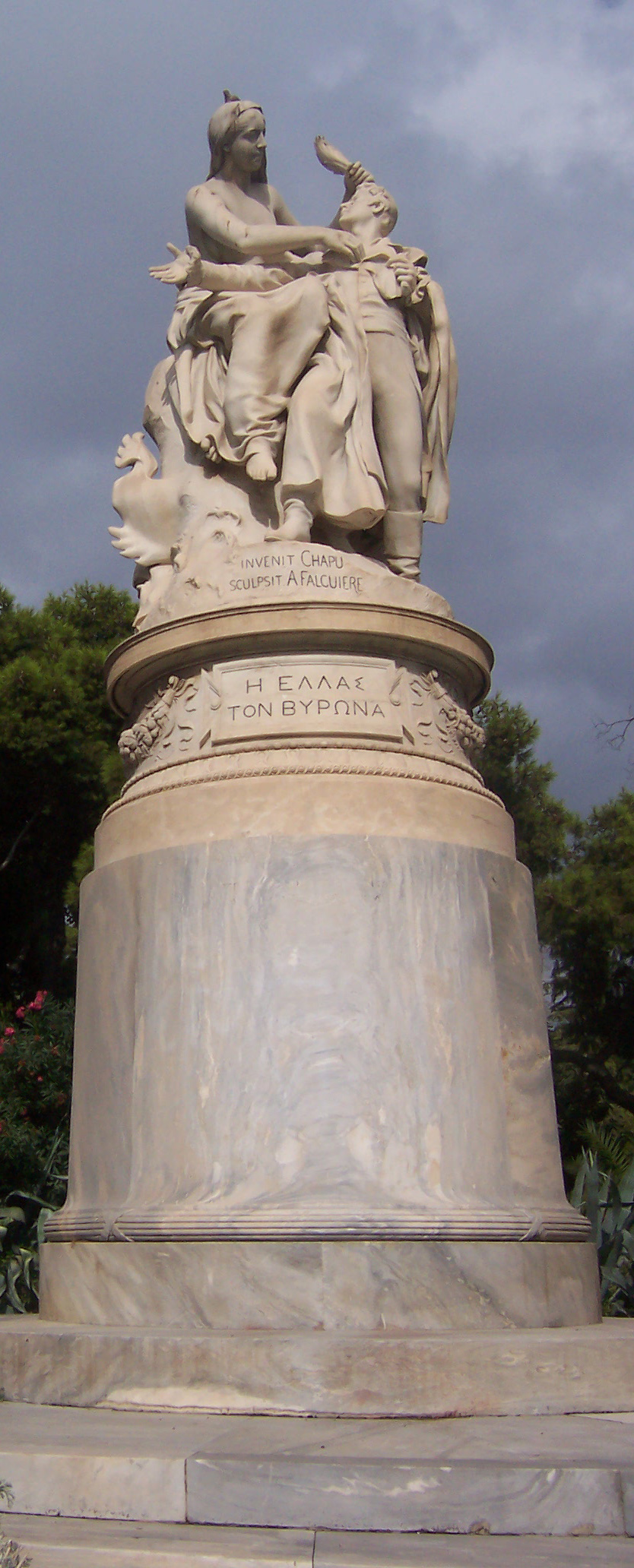 Statue of Lord Byron, one of the most beautiful statues in Athens, Greece. By Alexandre Falguière (1831-1900), 1896